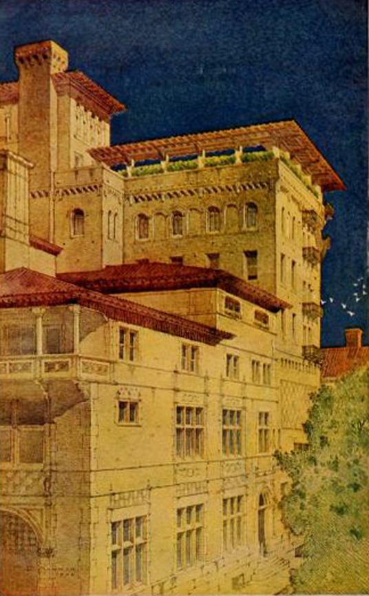 Art Club of Philadelphia, Frank Miles Day, architect.